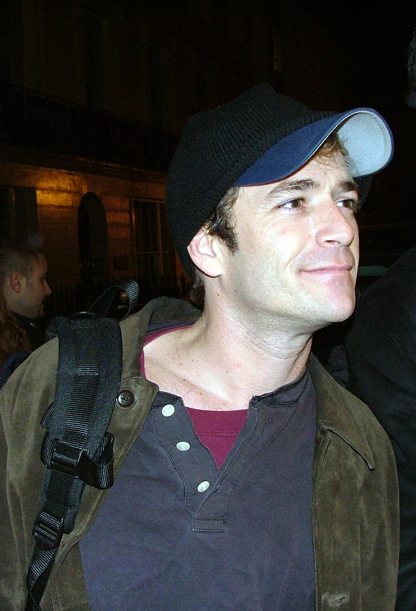 Luke Perry - London, England - February 14th 2004